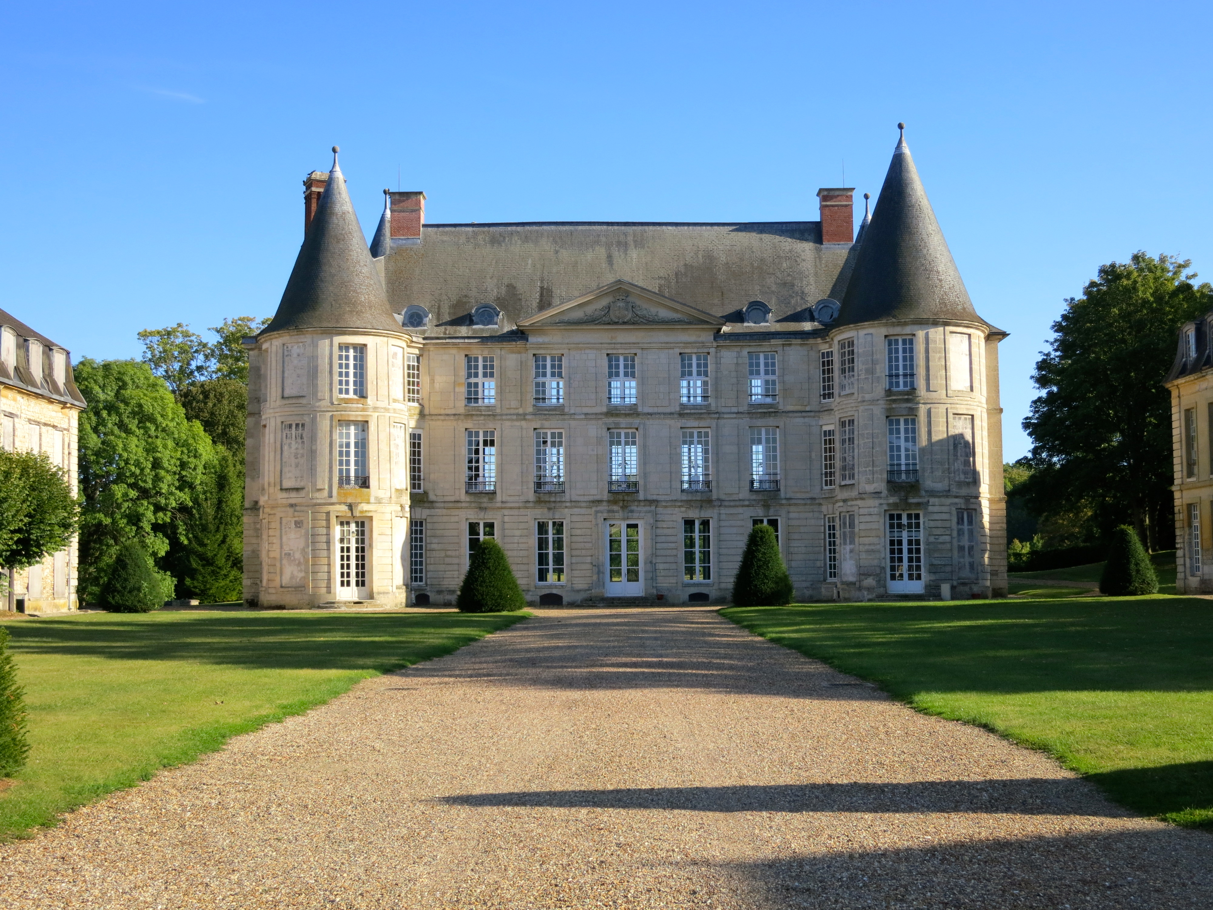 Chateau of Hénonville, Picardie, France